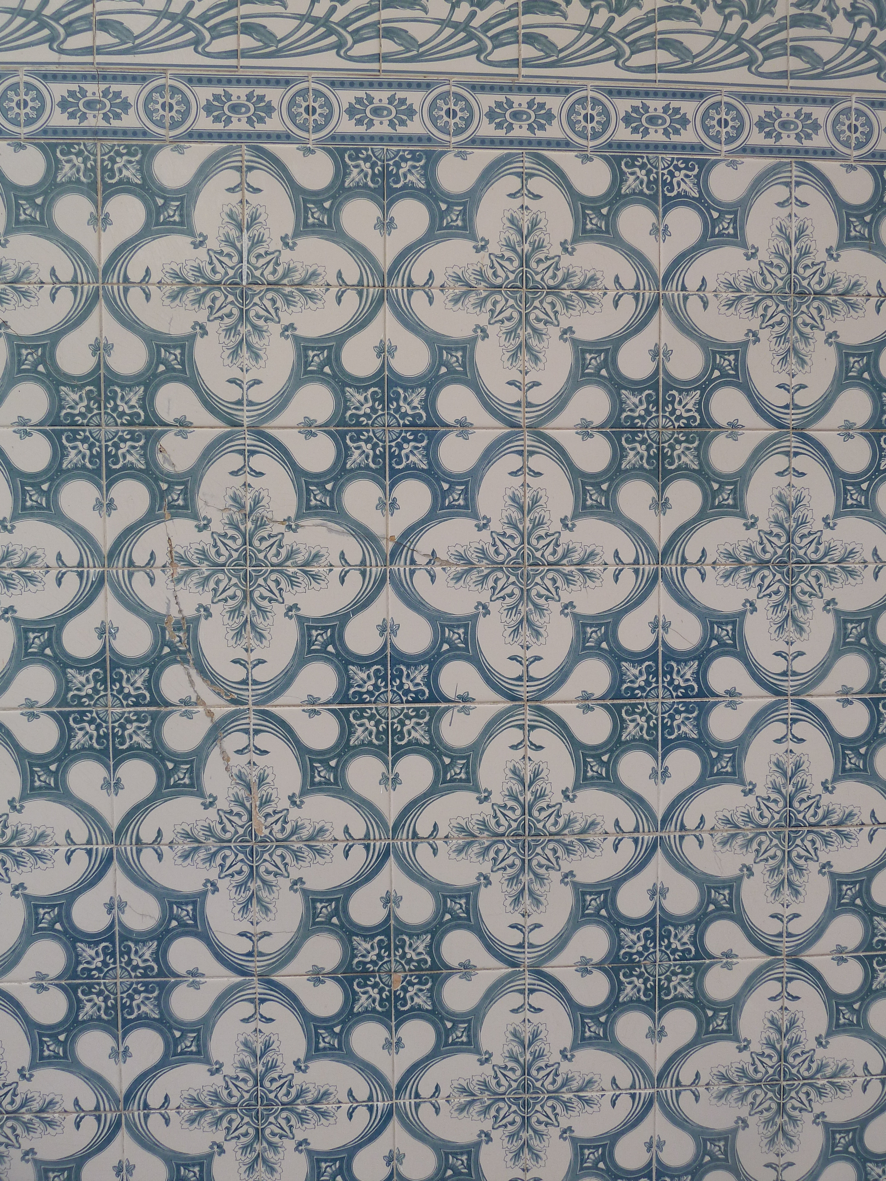 Portimao railway station, Portimao, Algarve, Portugal October 2015